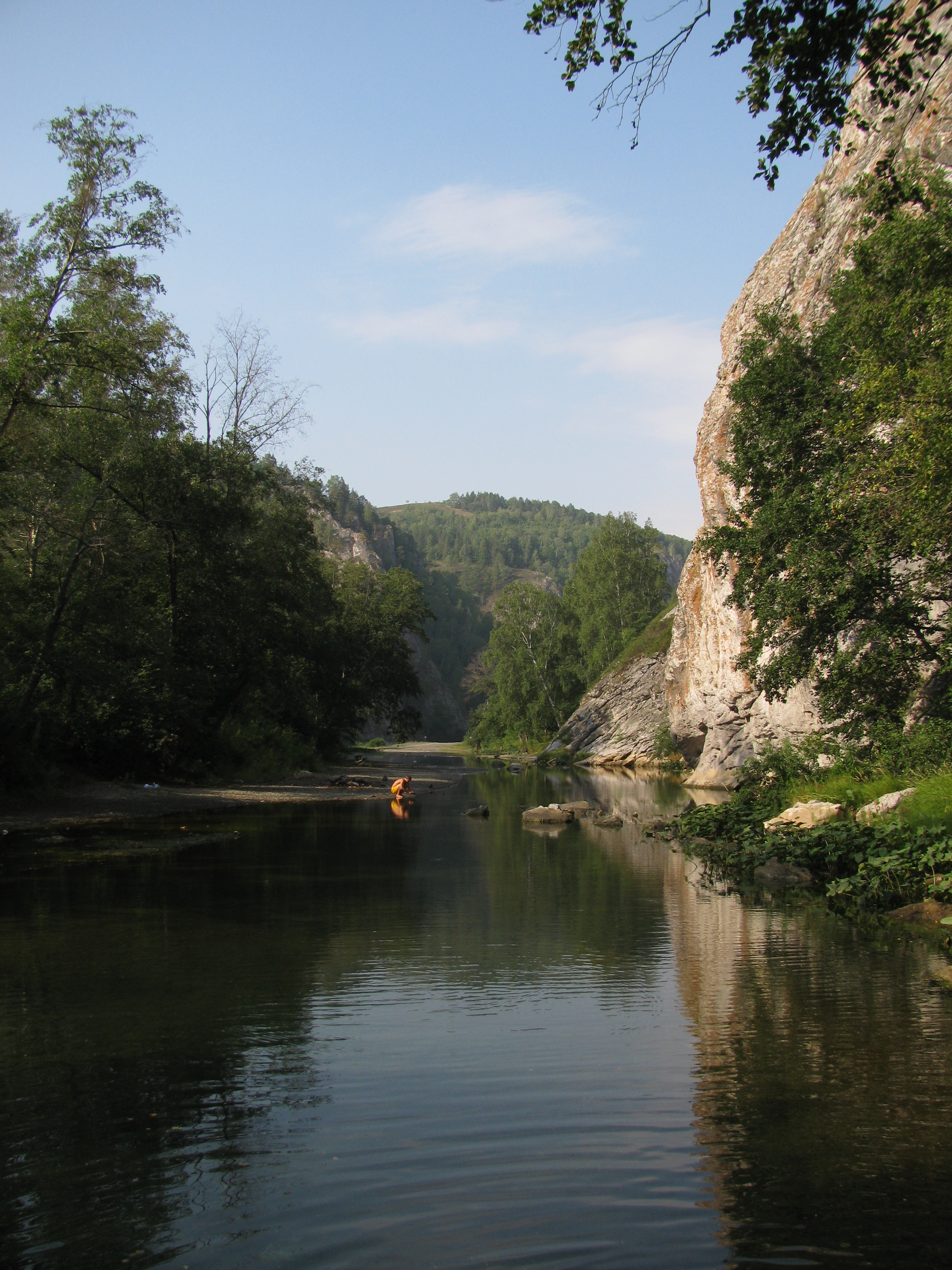 Near the spring in the gorge Muradymsko.